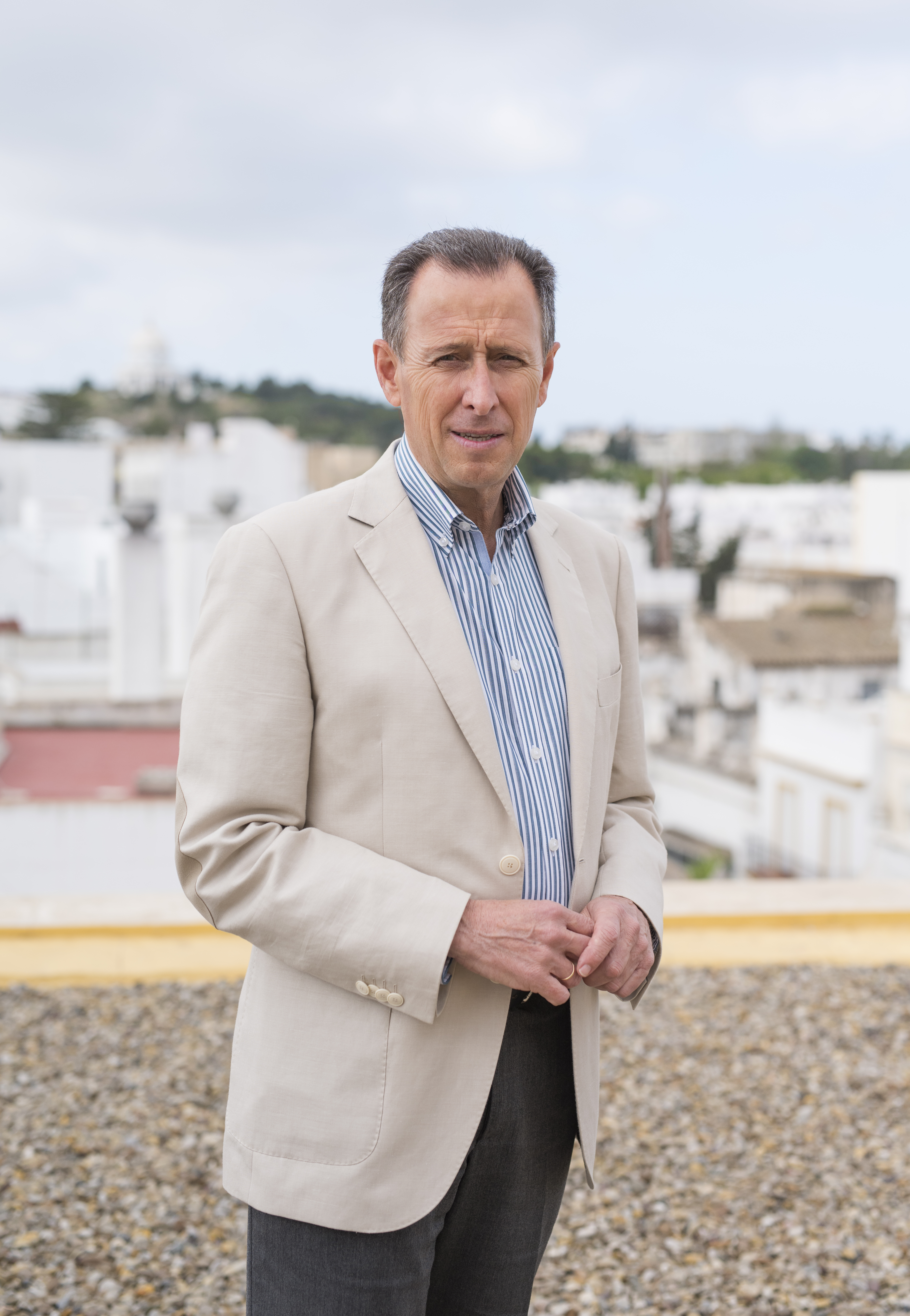 José María Román Guerrero, alcalde de Chiclana de la Frontera (Cádiz)